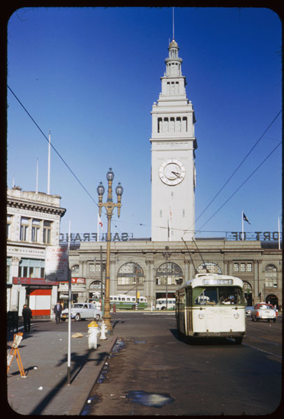 A Muni trolleybus in front of the Ferry Building in 1953. It is outbound on route 7 Haight, predecessor to the modern 7 Haight/Noriega route.